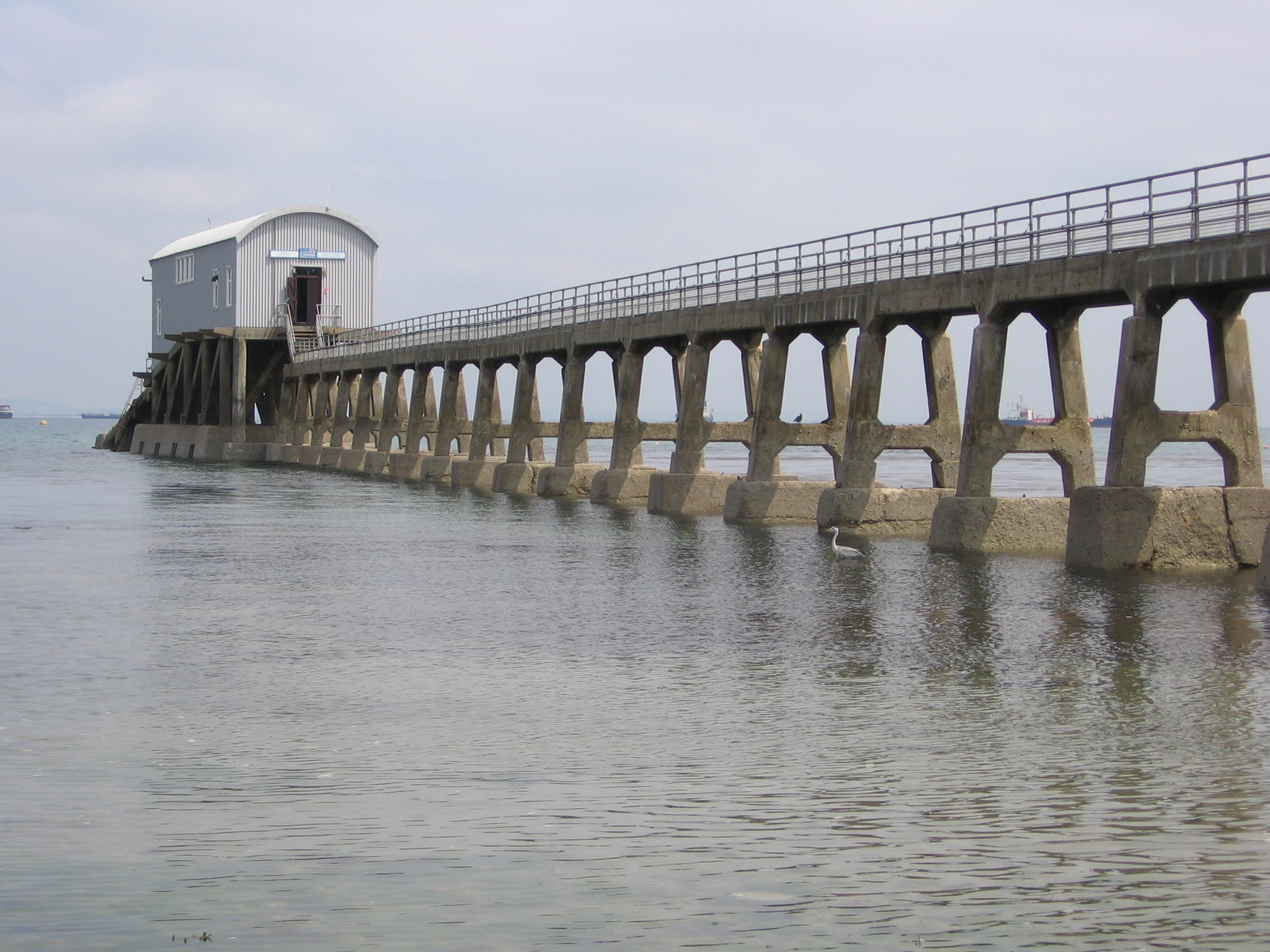 Bembridge Lifeboat Station, Bembridge, Isle of Wight, UK.